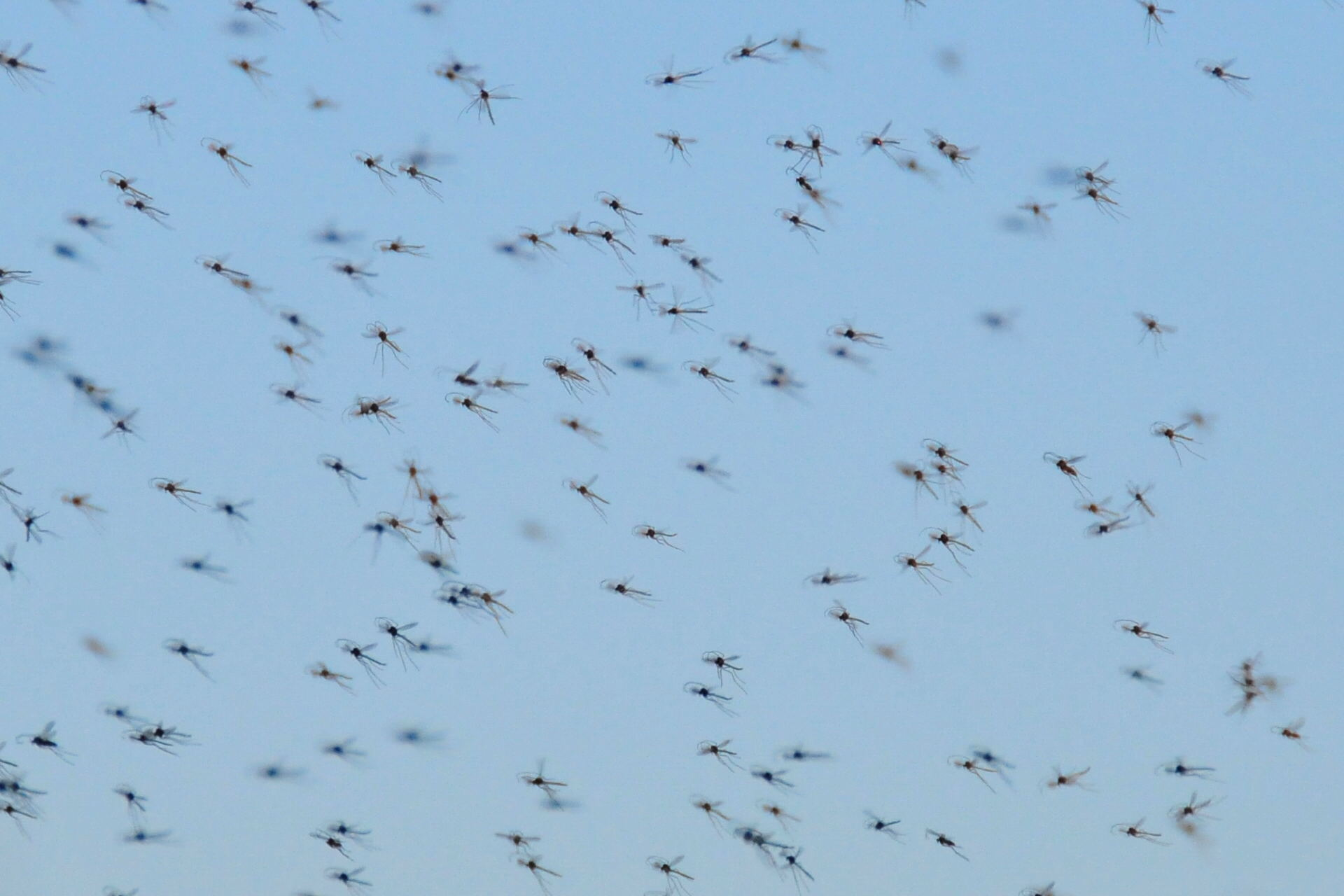 Midges or Choronomids, especially in their larval form, are an extremely important food source for waterfowl. The adult phase pictured here are very important for swallows, night-hawks, warblers, and other migratory birds. Photo Credit: Tom Koerner/USFWS.